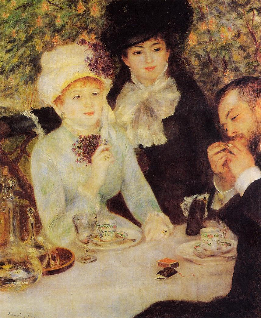 public domain